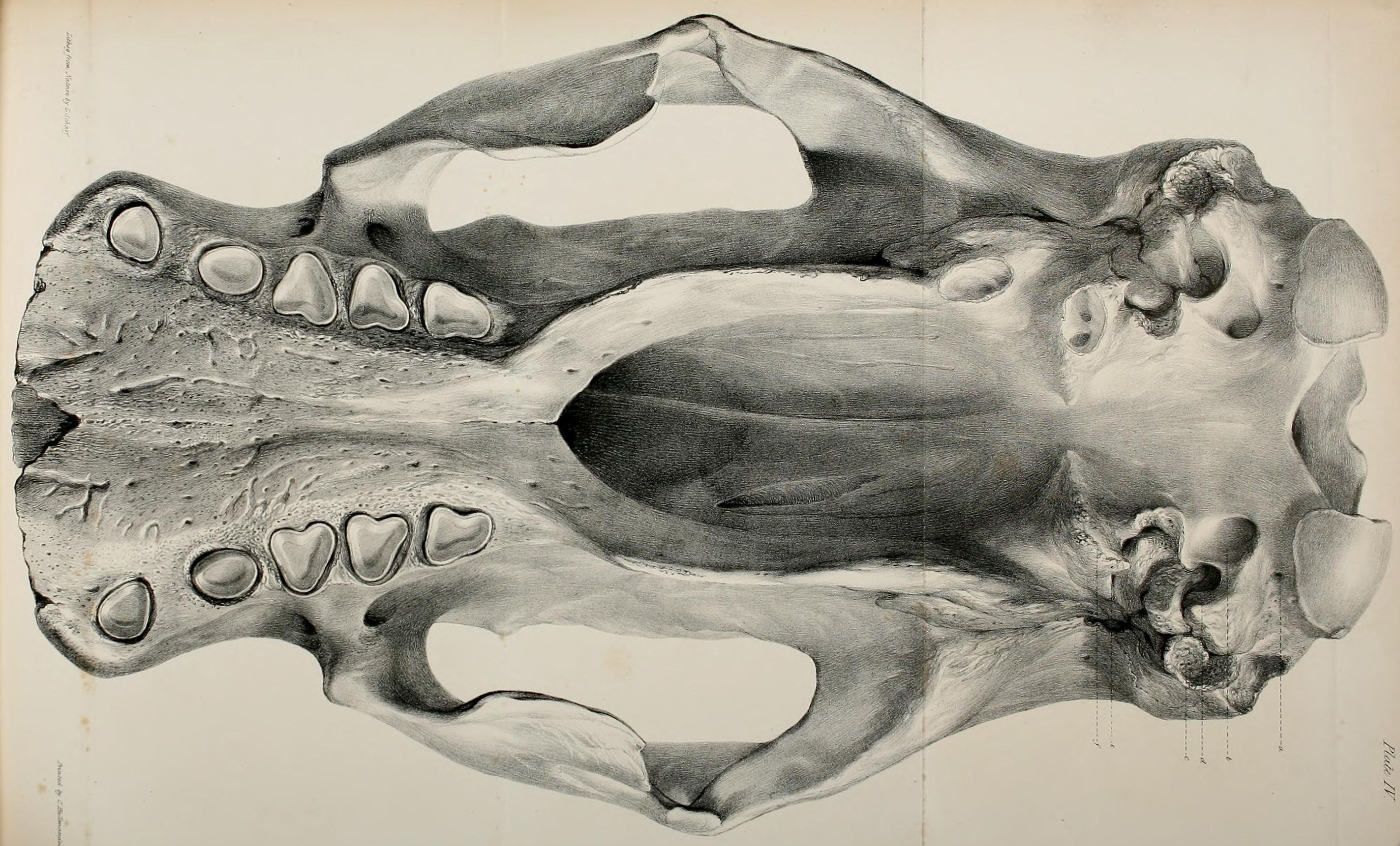 Title: Description of the skeleton of an extinct gigantic Sloth, Mylodon robustus, Owen, with observations on ... Megatherioid quadrupeds in general Year: 1842 (1840s) Authors: Owen, Richard Subjects: Publisher: London Text Appearing Before Image: ' Text Appearing After Image: '